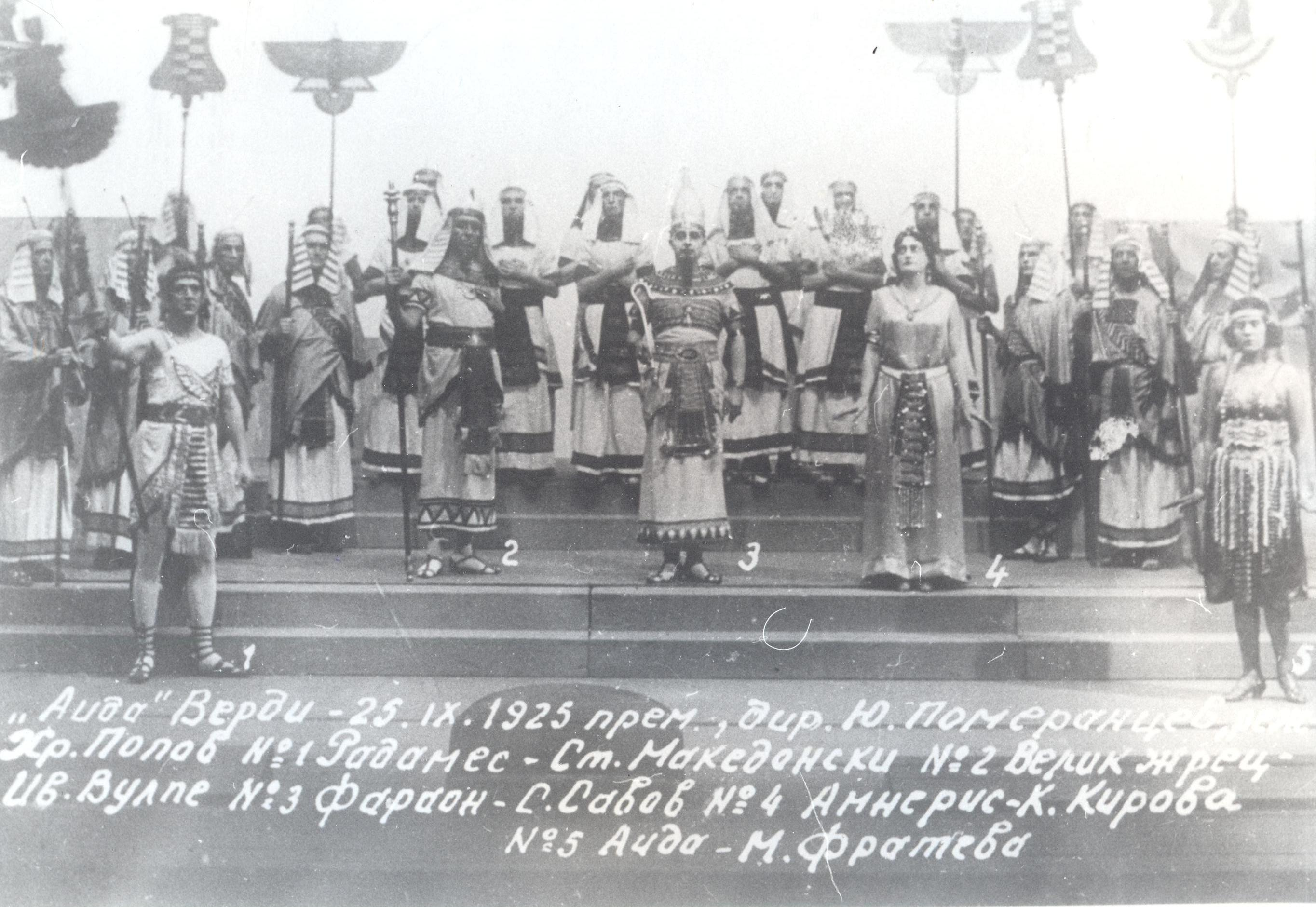 Aida, Sofia National Opera, Bulgaria, 25.09.1925.